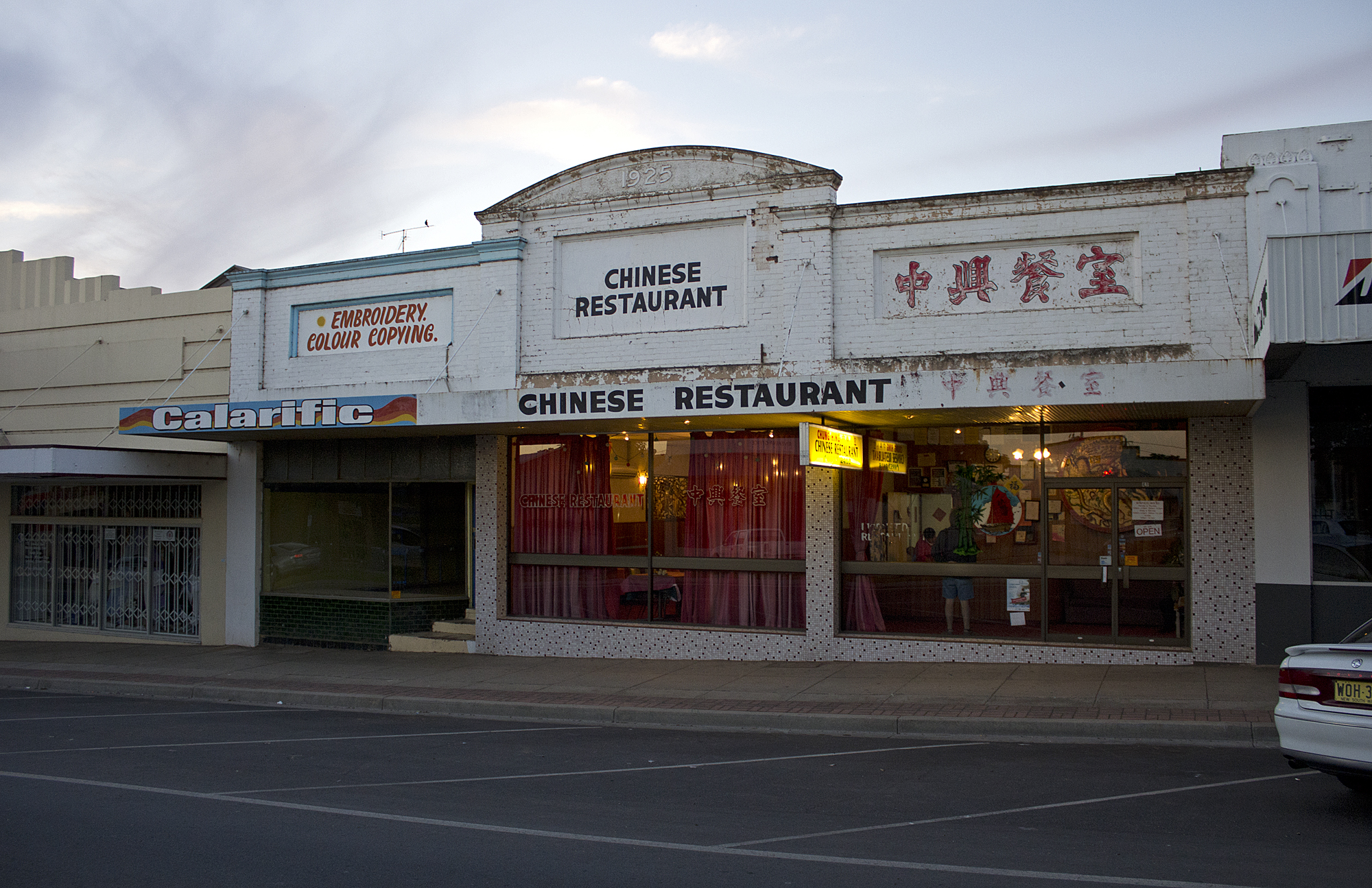 Embroidery shop and Chinese restaurant in Pine Ave in Leeton, New South Wales.